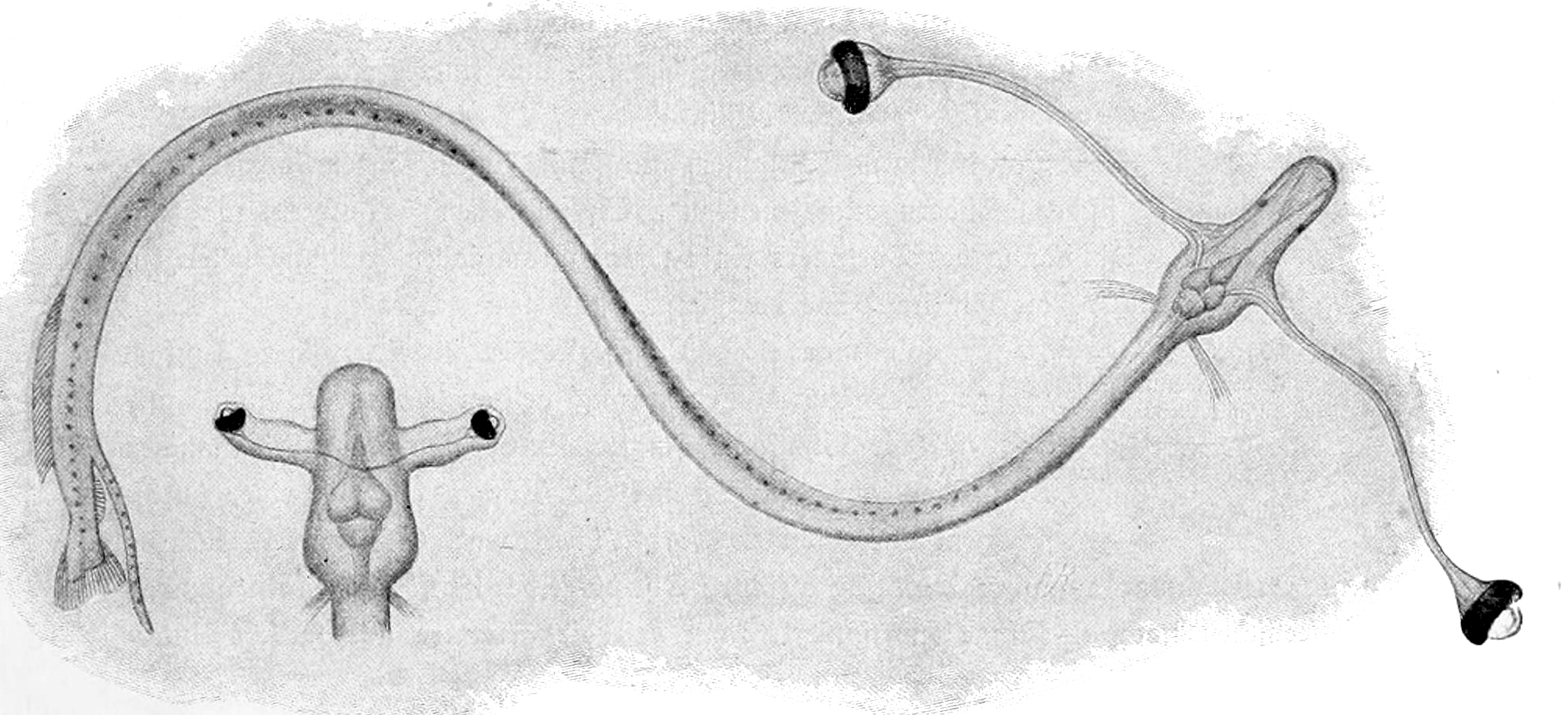 Idiacanthus fasciola juvenile